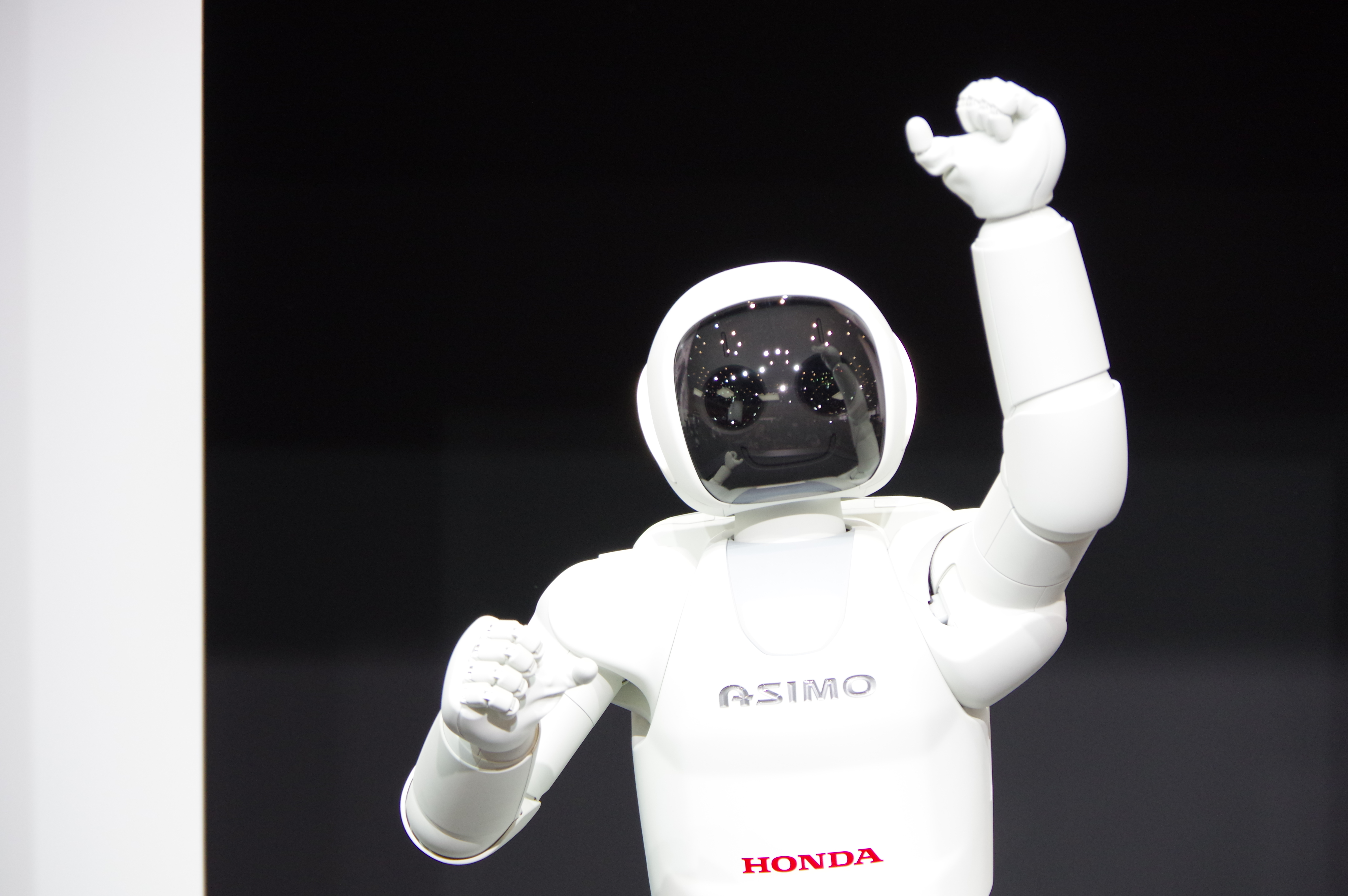 The 43rd Tokyo Motor Show 2013_PENTAX K-3_158